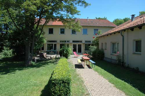 Boat house of Rudergemeinschaft Angaria Hannover, Weddigenufer 25 in Hannover